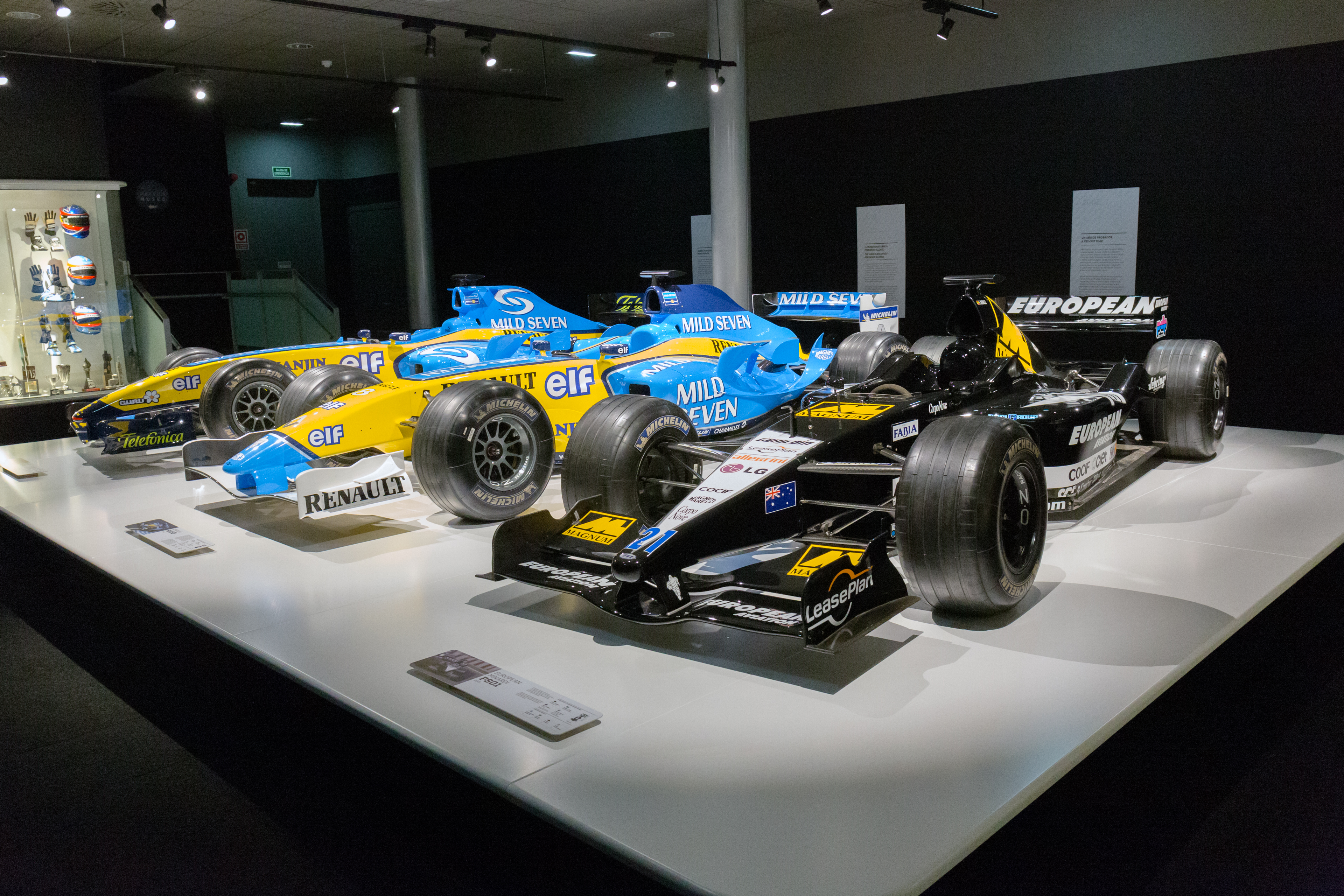 Museo y Circuito Fernando Alonso: first floor